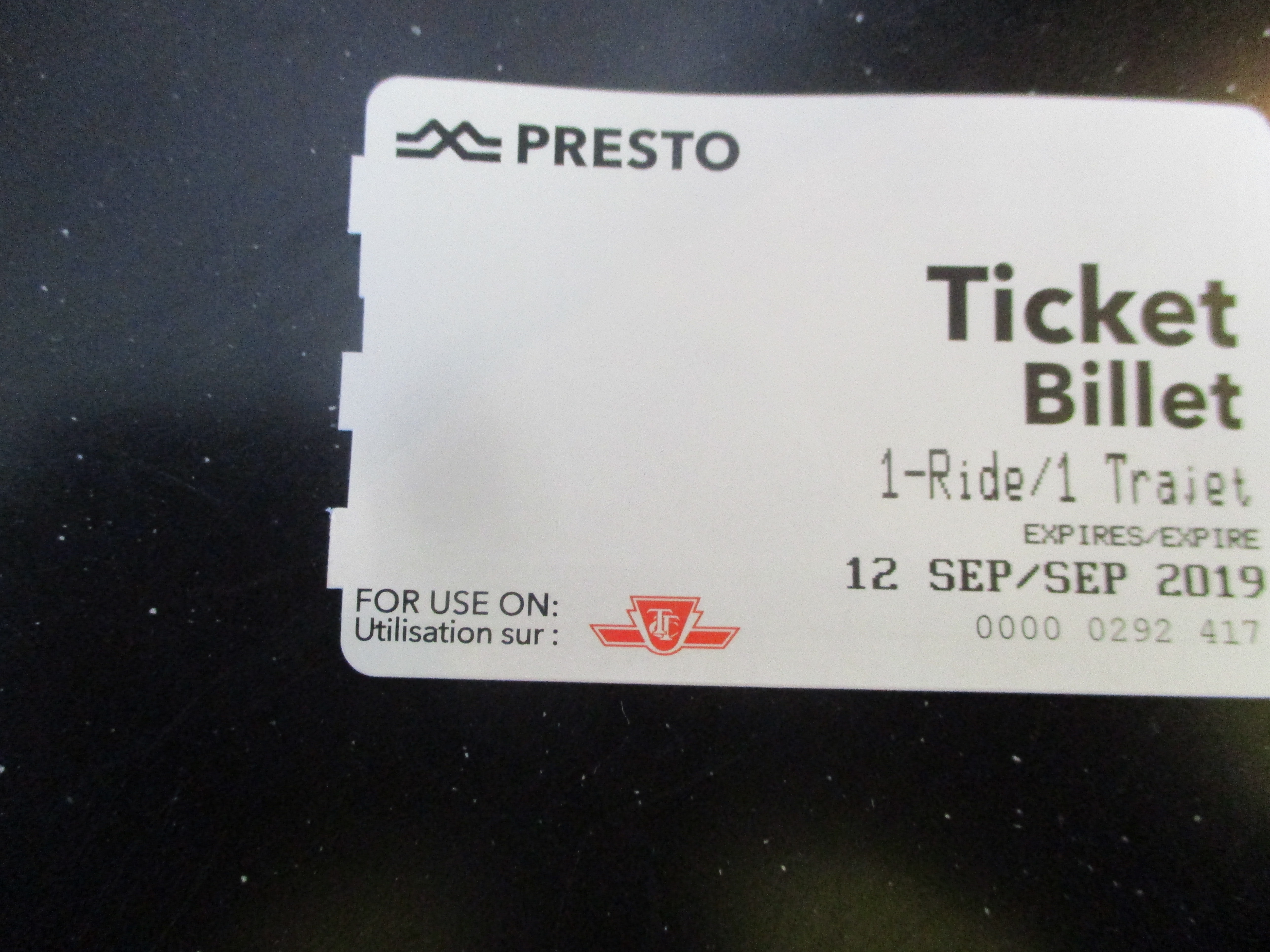 This is a limited-use-media Presto card, known as the Presto ticket, this is designed for people who do not have a regular green or black Presto cards as well as for those who do not often rely on taking the Toronto Transit Commission (TTC), or for tourists using the system. The picture above is a one-ride Presto ticket, they also include a two-ride ticket as well as a day pass. Just like with green or black Presto cards, Presto tickets, have an embedded RFID chip on which they can swipe or tap the Presto ticket on the Presto electronic fare readers when boarding a TTC bus or streetcar, and to pass through the subway station turnstiles or fare gates. But however, unlike with the green or black regular Presto cards, Presto tickets are specifically valid for use on TTC only and are not reloadable and do have an expiry date, which is shown on the front of the ticket.